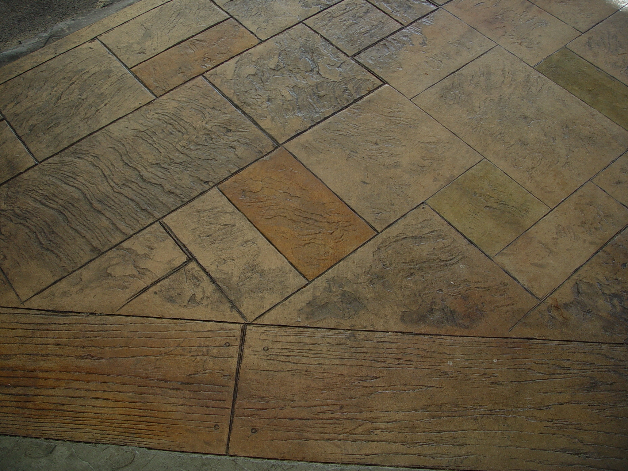 Stamped concrete patterns, mixed with acid stain coloring